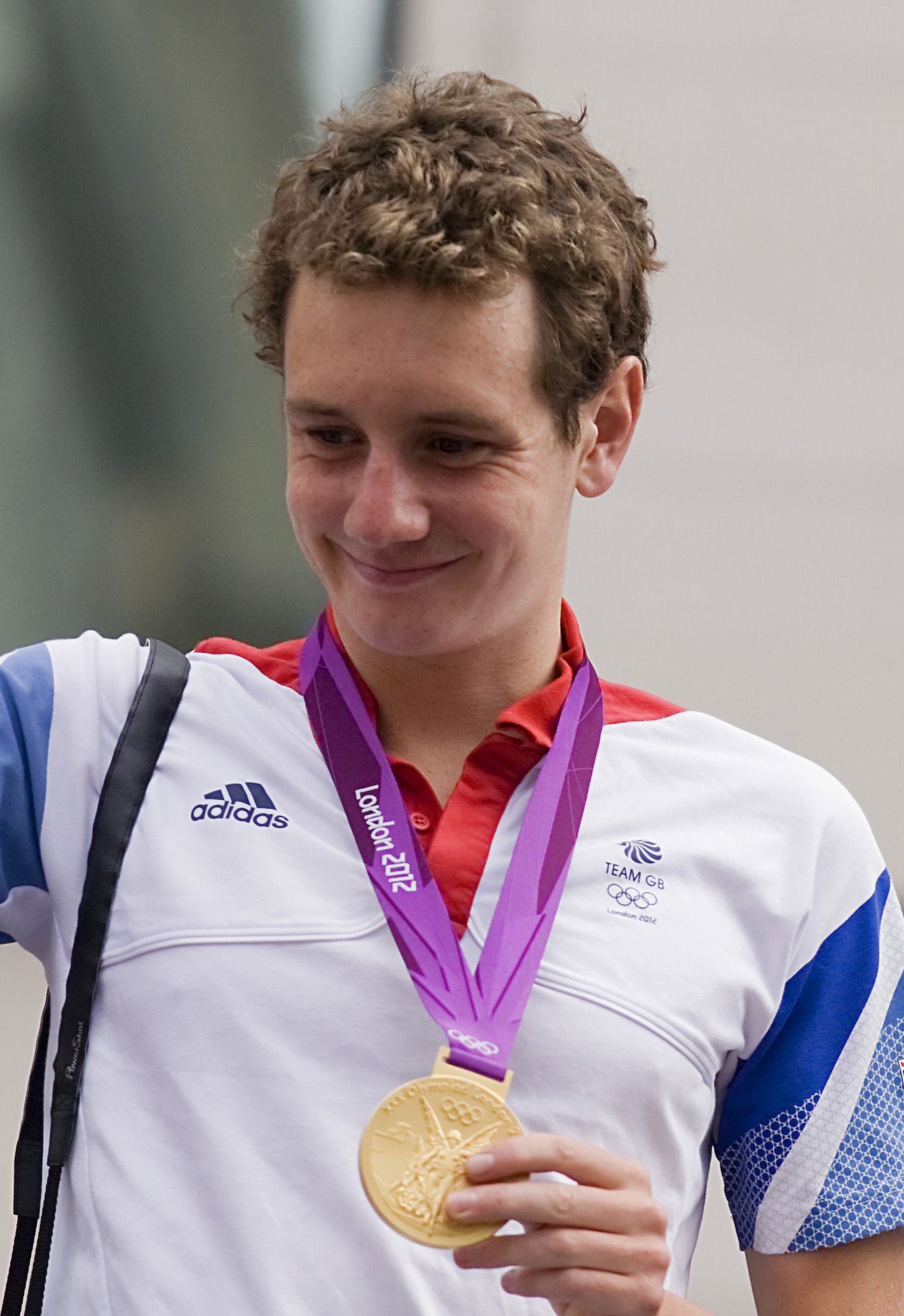 London 2012 Olympic & Paralympic Games Victory Parade, 10th September